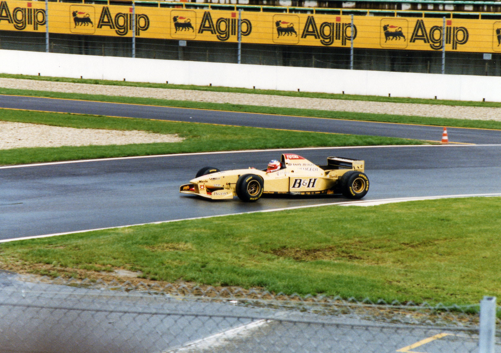 Rubens Barrichello during free practice of 1996 San Marino Grand Prix.